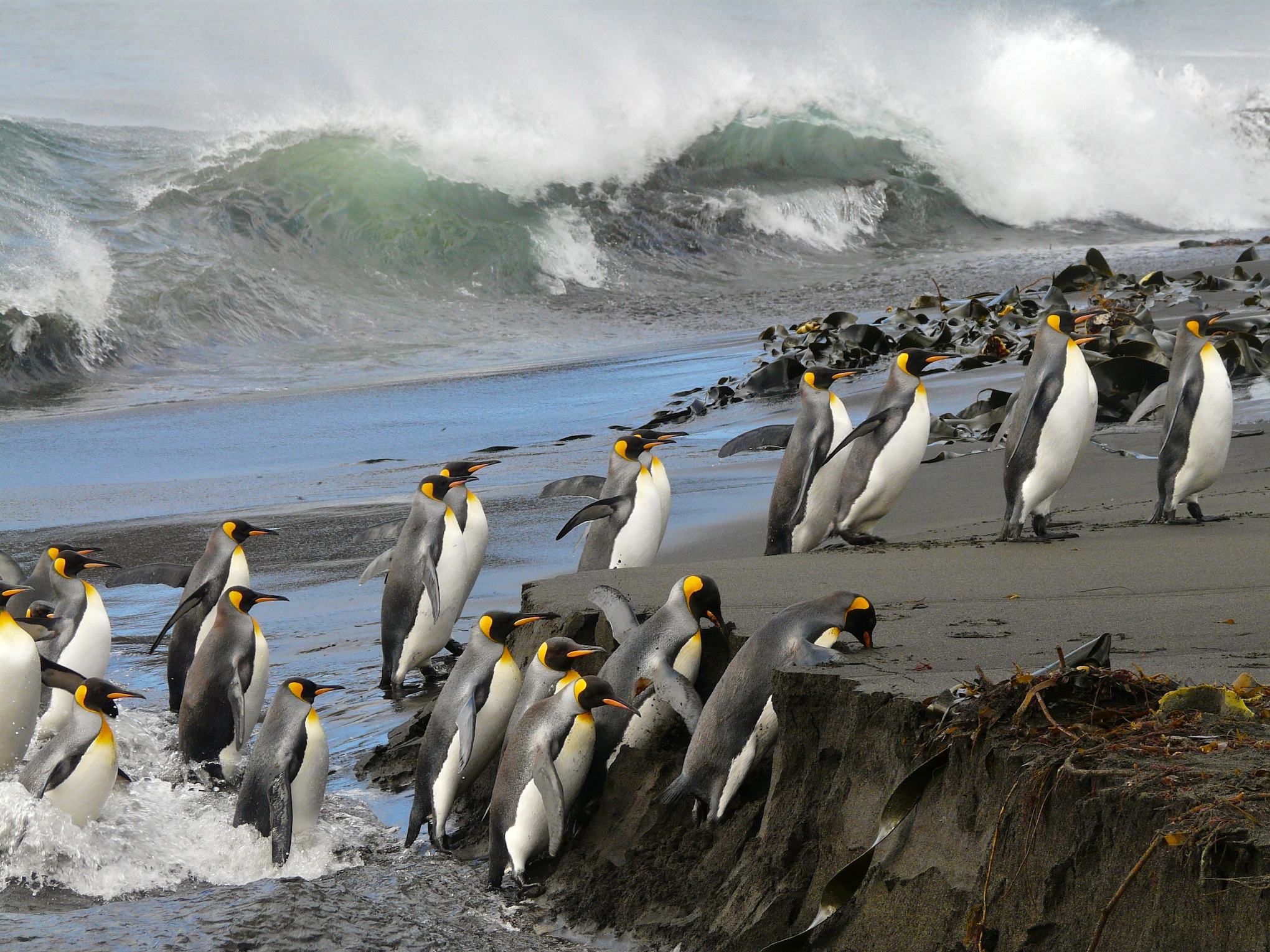 King penguins (Aptenodytes patagonicus) on shore of Île de la Possession or "Possession Island".